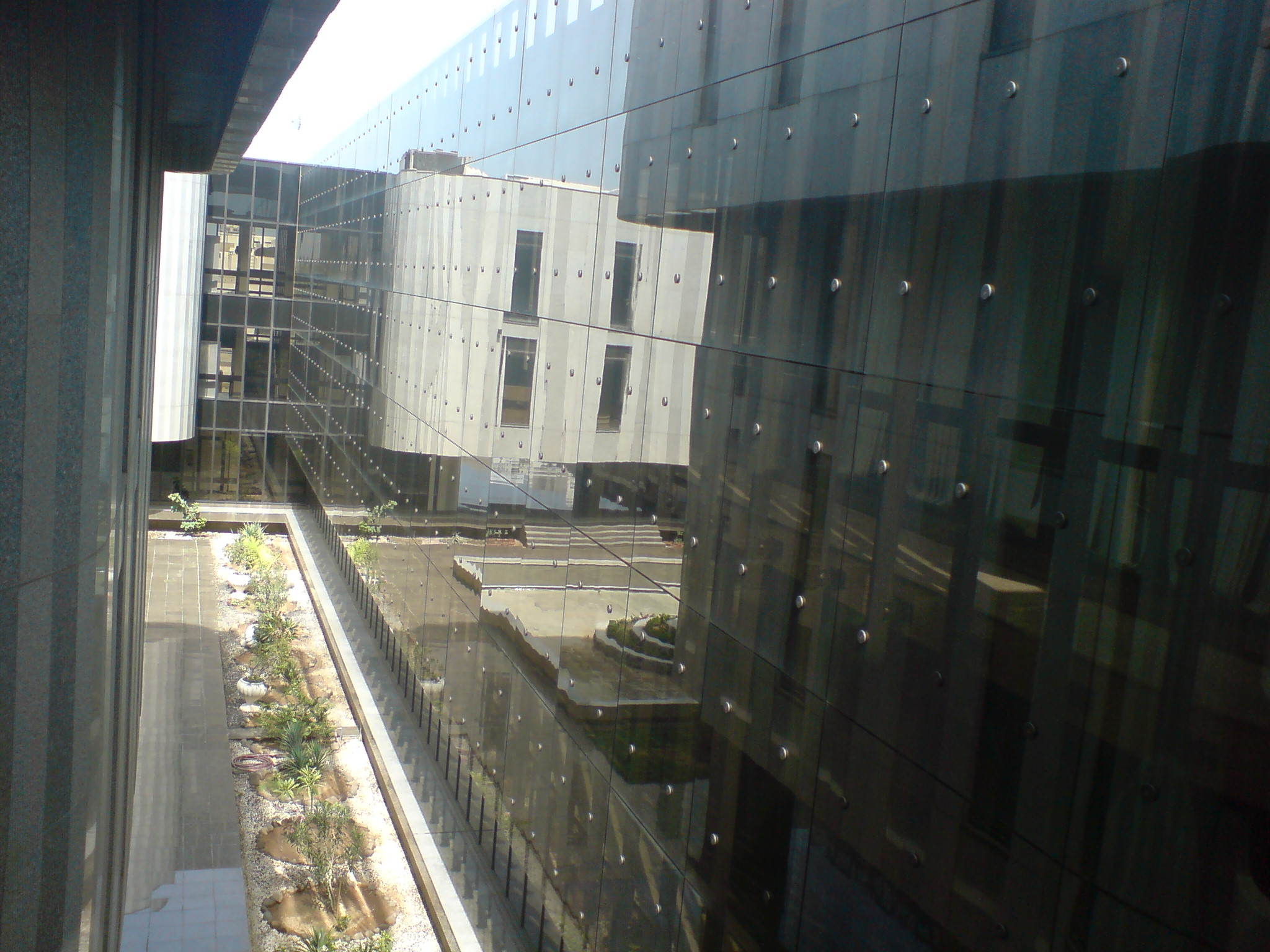 Building of Maaden Gold Co., Jeddah, Saudi Arabia